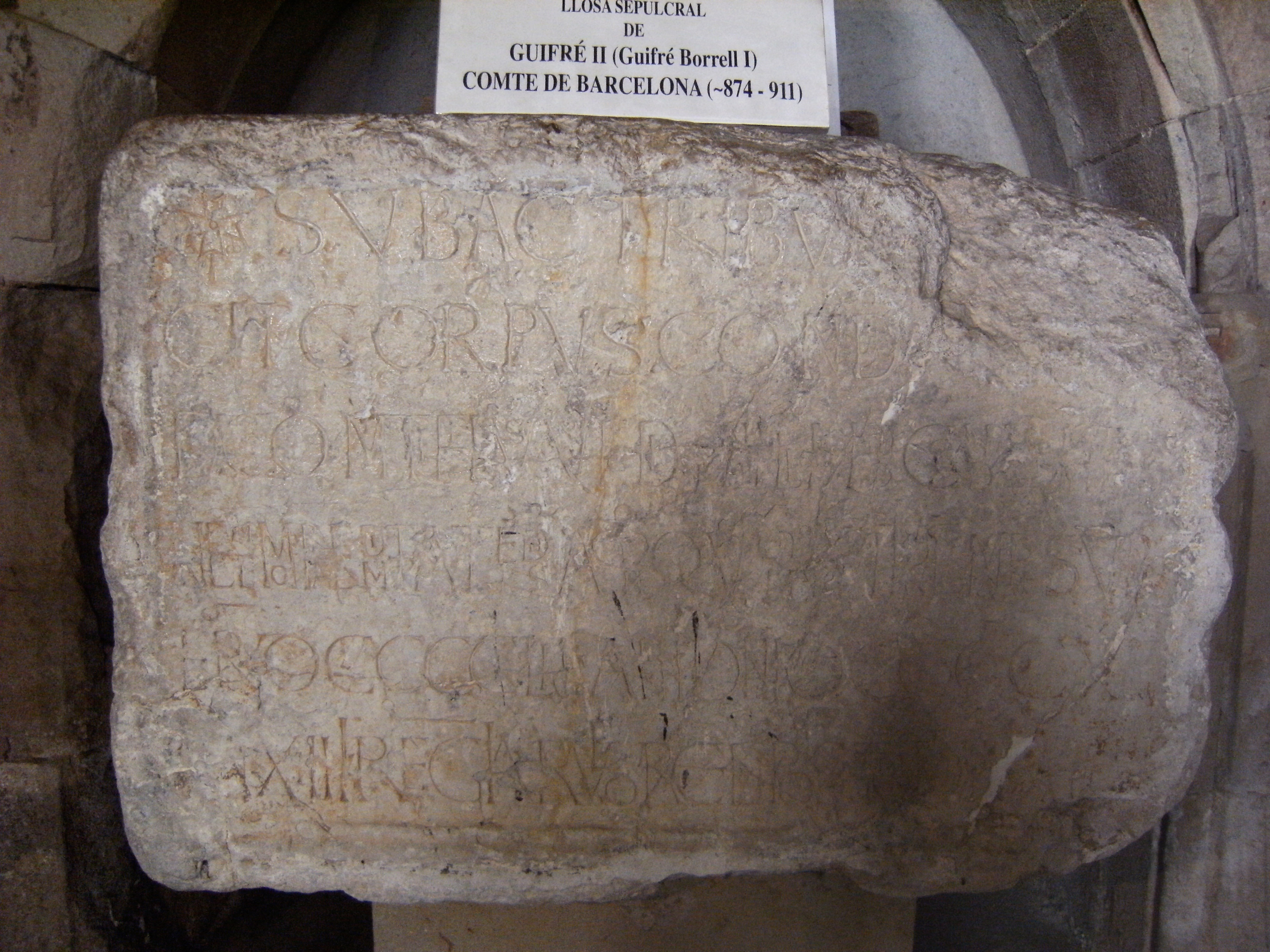 Sant Pau del Camp , Interior , làpida de Guifré-Borrell , 209